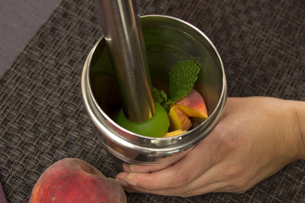 muddling fruit and mint leaves in a cocktail shaker with a muddler